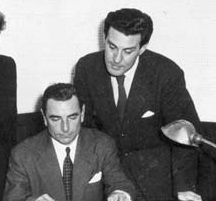 Carlos Arturo Orfeo- periodista argentino